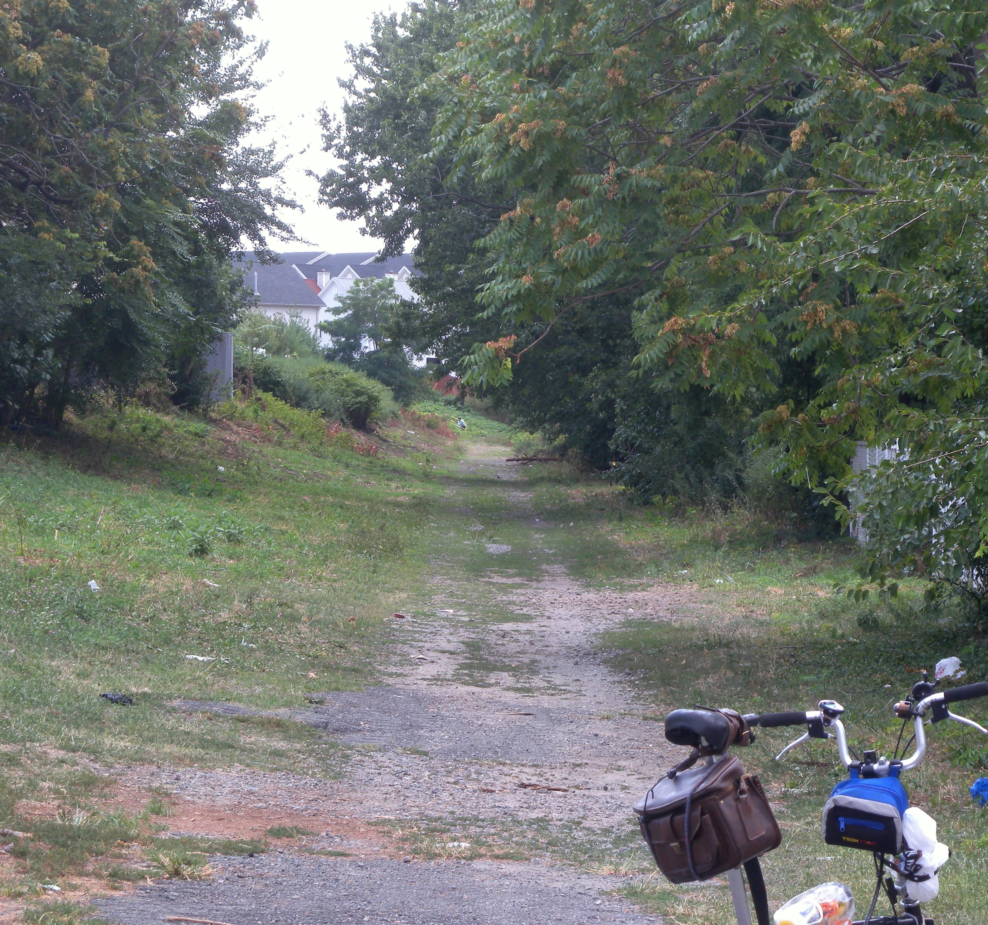 Looking south, zoomed, at former path of Morris Canal on a partly sunny midday.